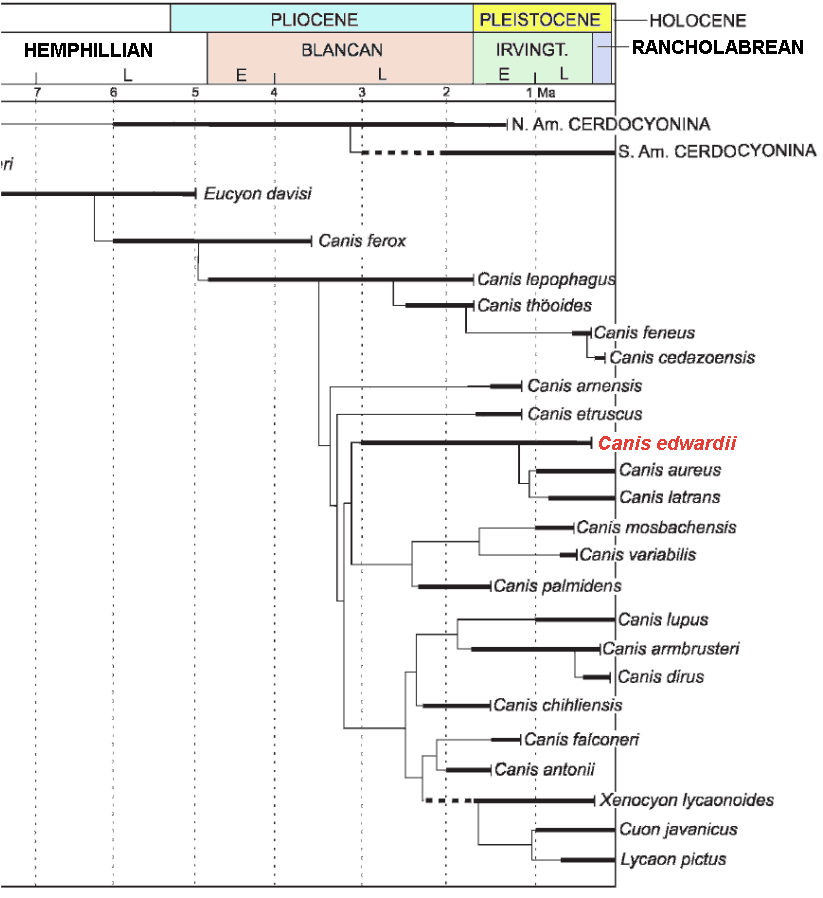 Diagram highlighting existence of Canis edwardii